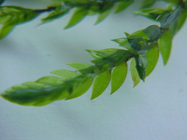 Species: Fontinalis antipyretica Family: ' Image No. 2